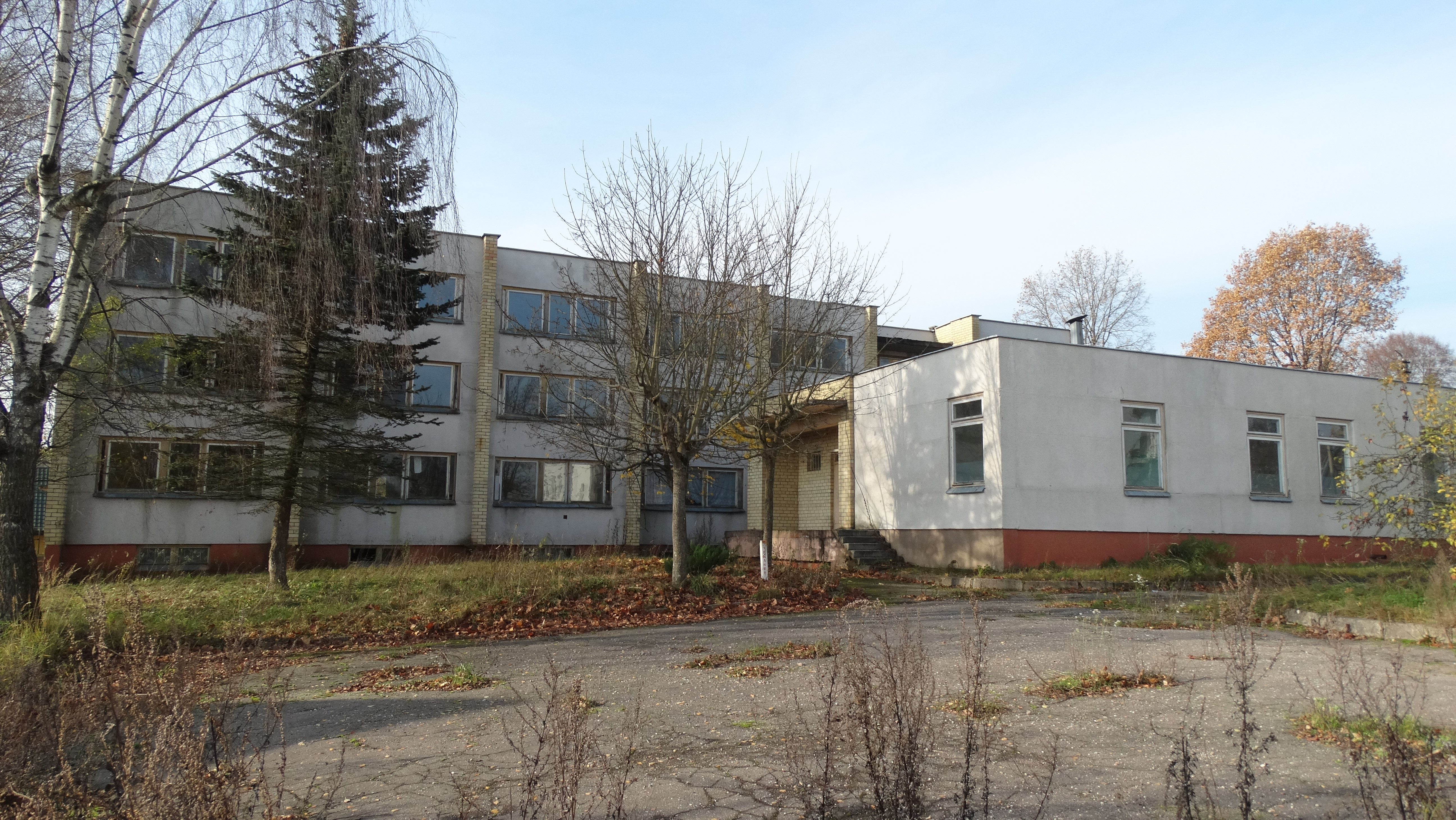 Former special school, Smalininkai, Jurbarkas District, Lithuania